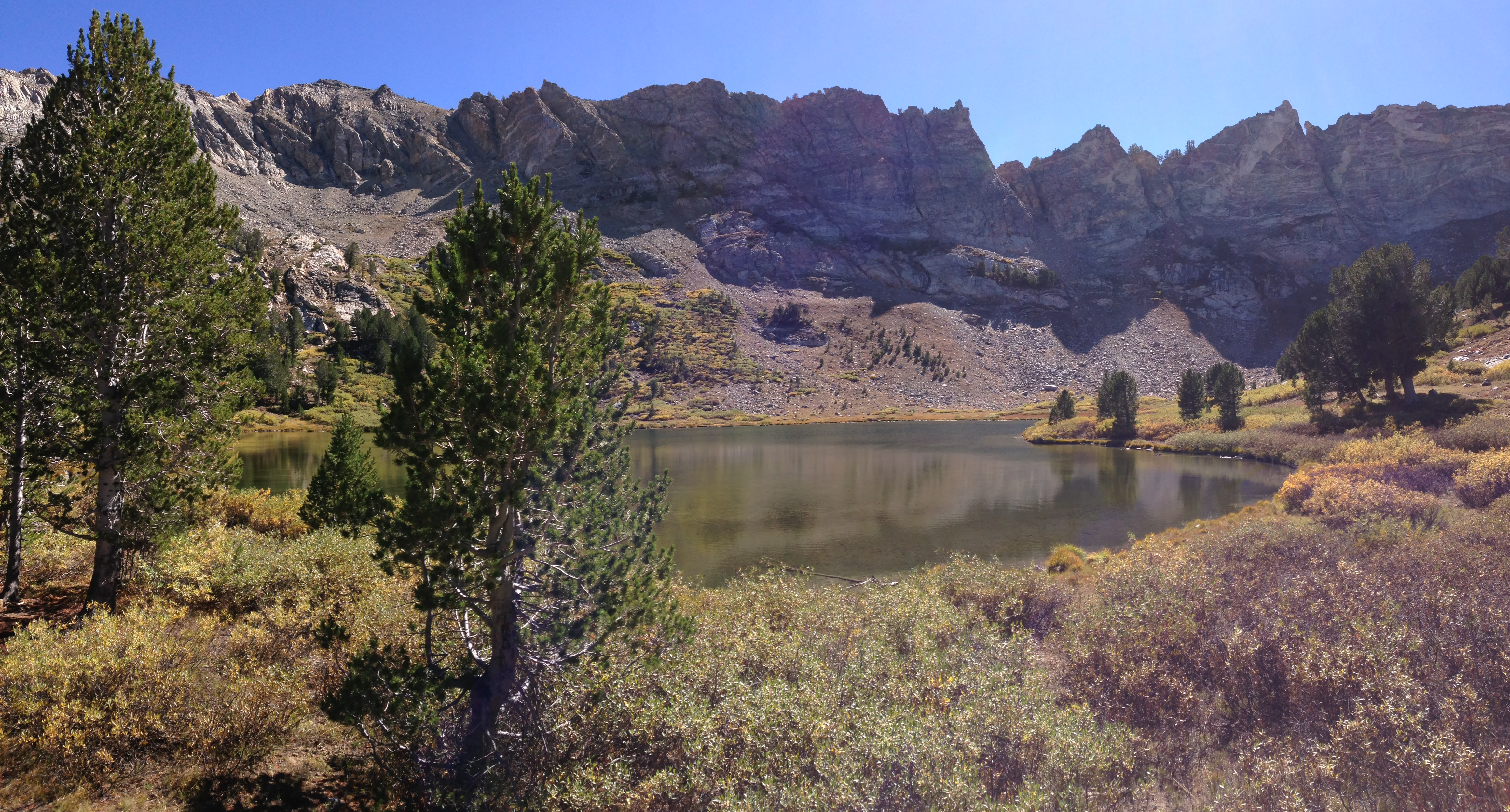 Panorama of Castle Lake from the north end on September 18th 2013